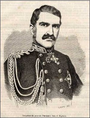 Alessandro Nunziante, Duke of Mignano (Messina, July 15, 1815 - Naples, March 6, 1881) was an Italian general and politician, more precisely, was an officer of the Kingdom of the Two Sicilies, passed in 1861 to Italian Army.